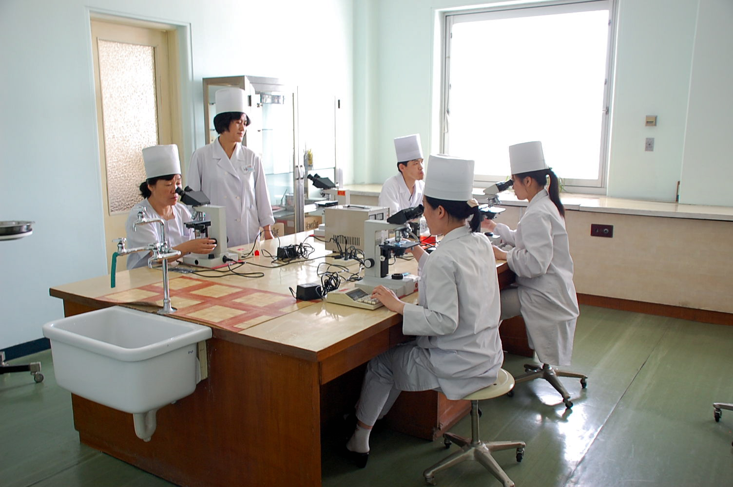 Trip to North Korea in June, 2008